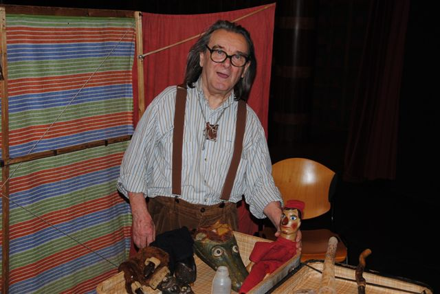 Henrik Kemény with his puppets